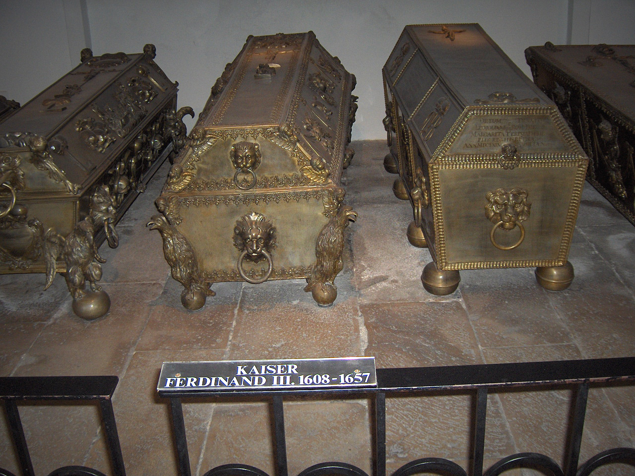 Austria, Vienna, Capuchin Church, Imperial Crypt